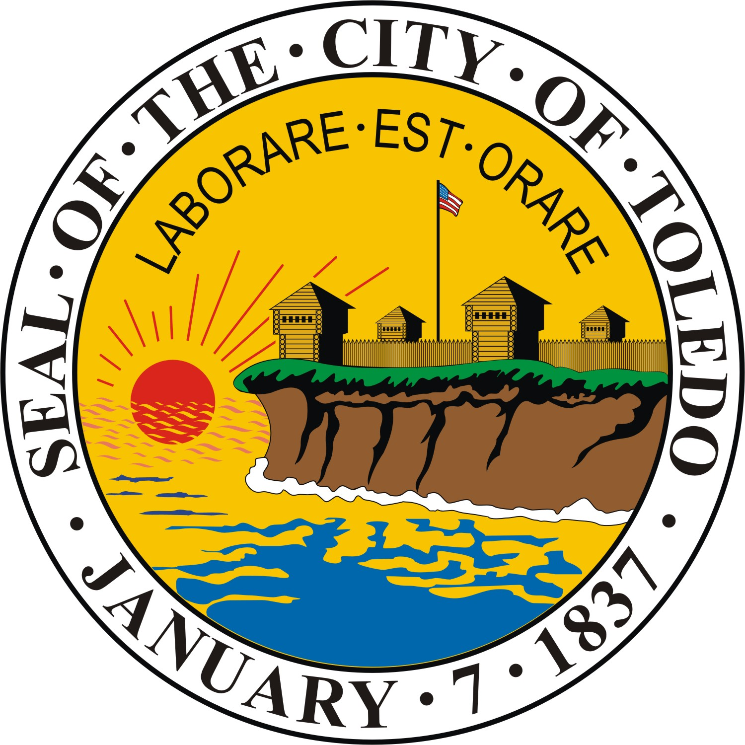 The Toledo city seal has been used since 1873 and shows the sun rising at Fort Industry with the phrase, LABORARE – EST – ORARE